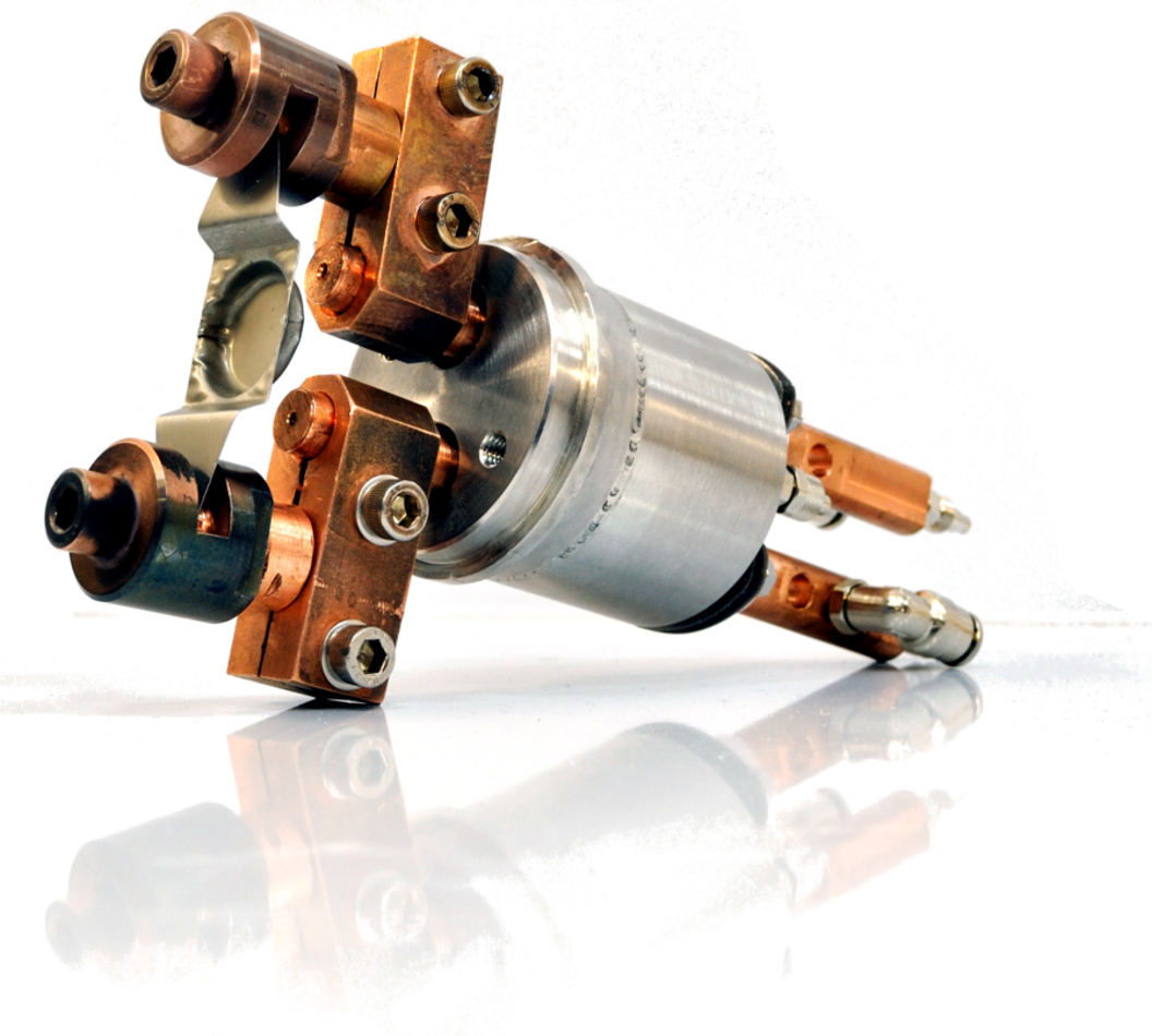 Thermal evaporation source with molybdenum boat. Massive copper current feedthoughs are seen.